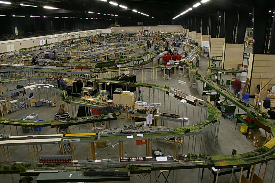 FREMO-gathering Zuidbroek (NL) October 2010: 1000 meter model railway modules